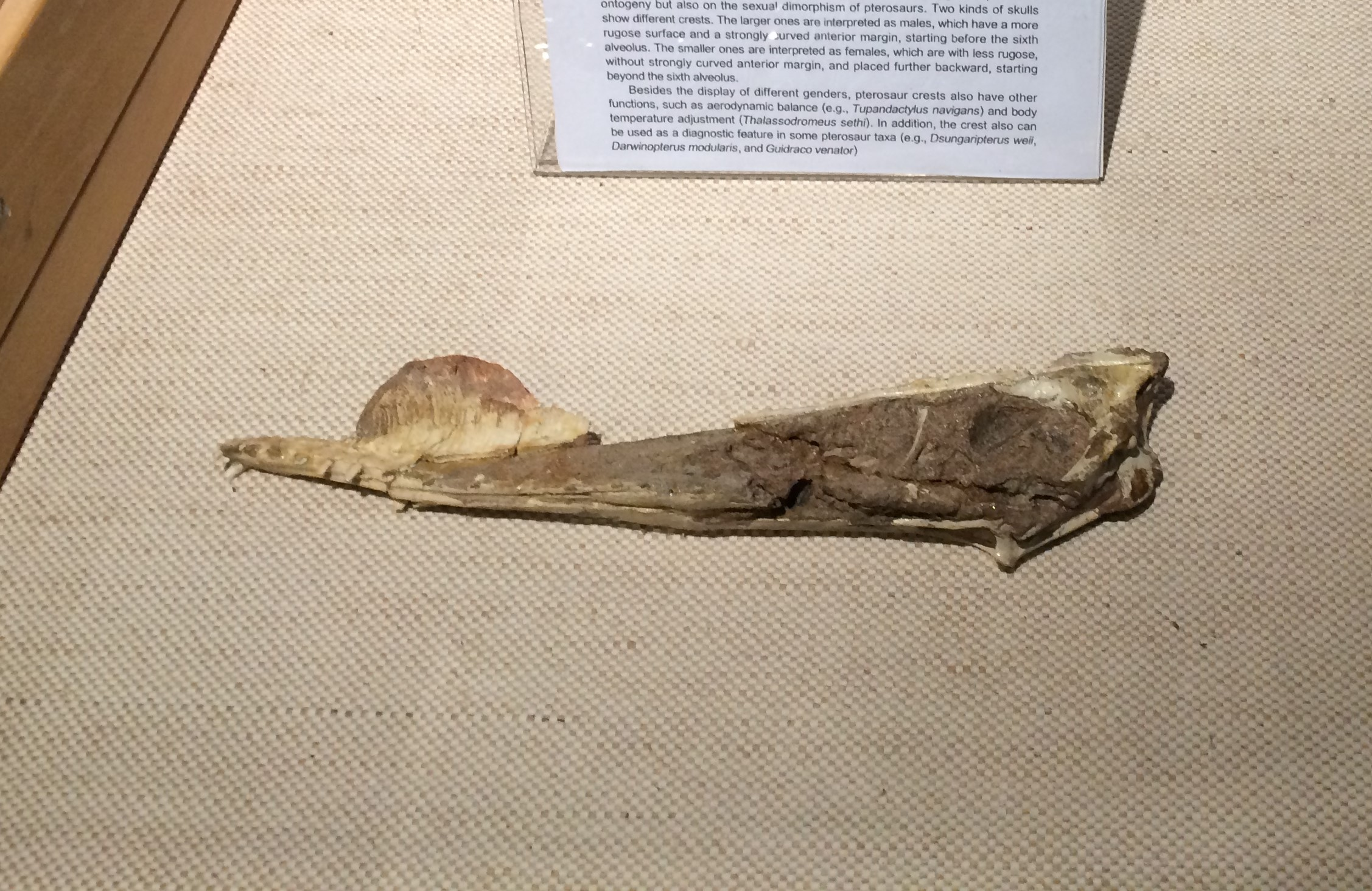 Hamipterus skull at the Paleozoological Museum of China.